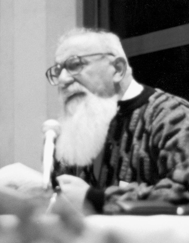 Lev Kopelev, russian writer and dissident, at a reading in Bad Münstereifel, Germany